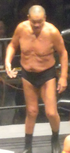 Japanese professional wrestler,Yoshiaki Fujiwara. Aug 18 2012,DDT Nippon Budokan.